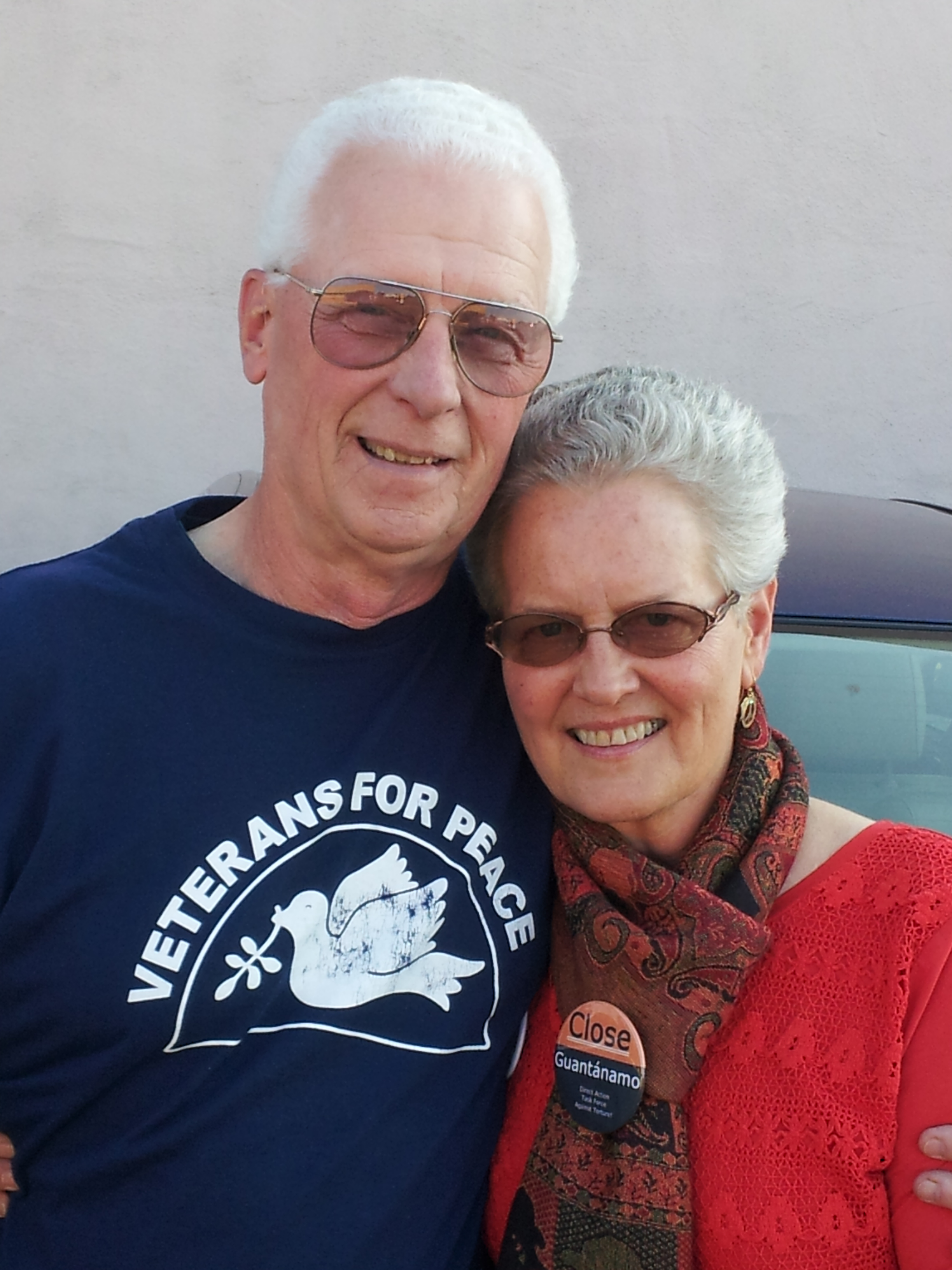 Phil Butler, President for 20 years of his local chapter of the Veterans for Peace